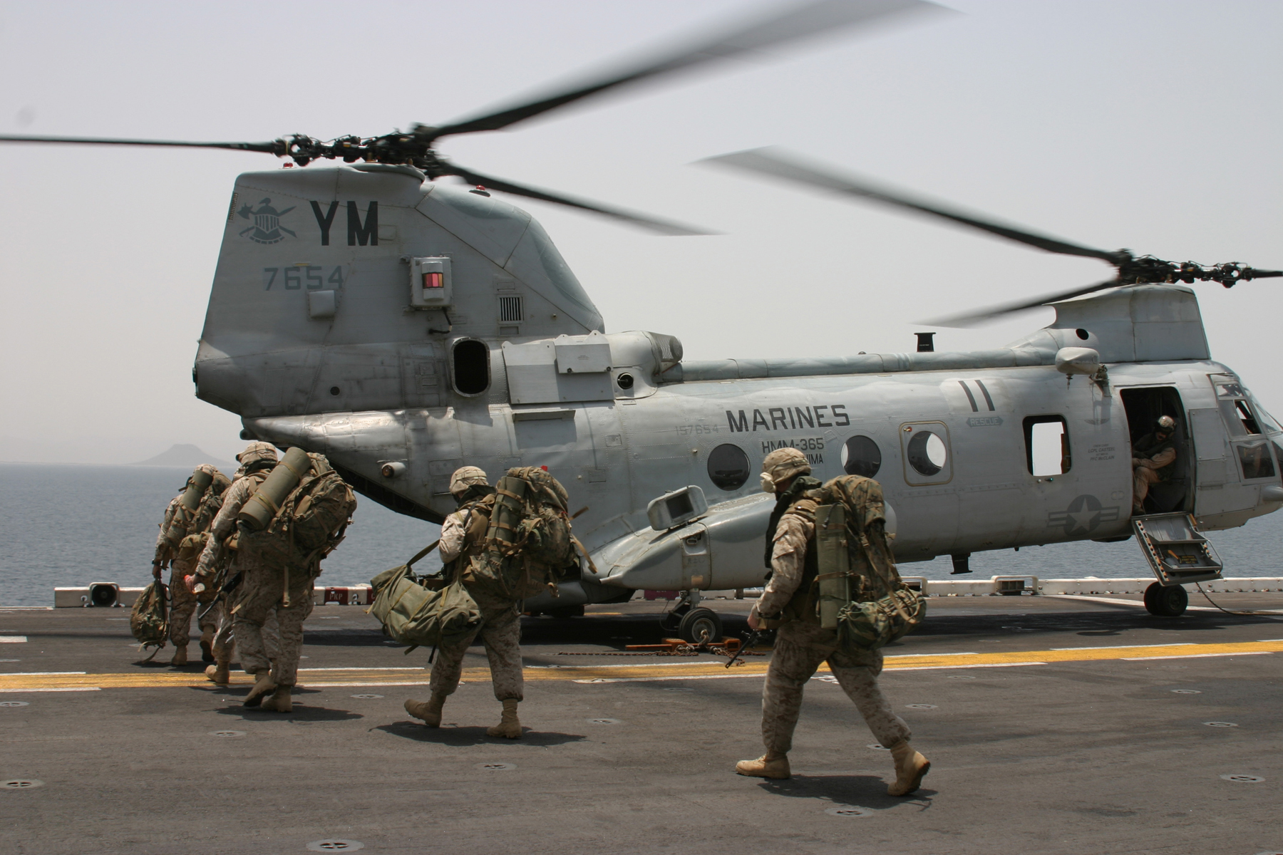 Marines of the 24th Marine Expeditionary Unit prepare to board a CH-46 helicopter on their way to the East African nation of Djibouti Thursday to begin their first training exercise since returning to the Central Command area of operations. The Marines, members of Battalion Landing Team 1st Battalion, 8th Marines, 24th MEU, will spend the next several days firing an array of weapons aboard desert training ranges. Photo ID: 20068258520